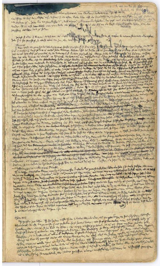 Walter Benjamin parchment booklet